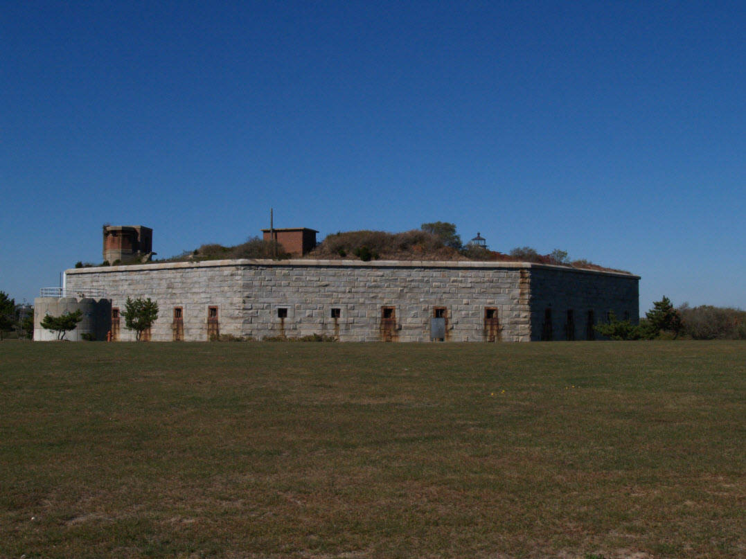 Historic Fort Rodman, New Bedford, Massachusetts. The lantern of Clarks Point Light is barely visible over the right center of the fort.